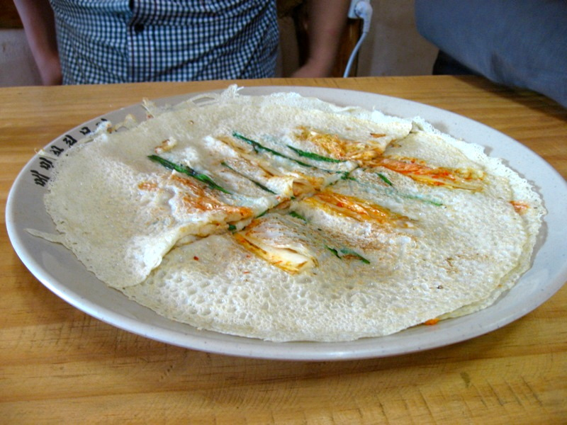 Korean buckwheat pancake-Memiljeon